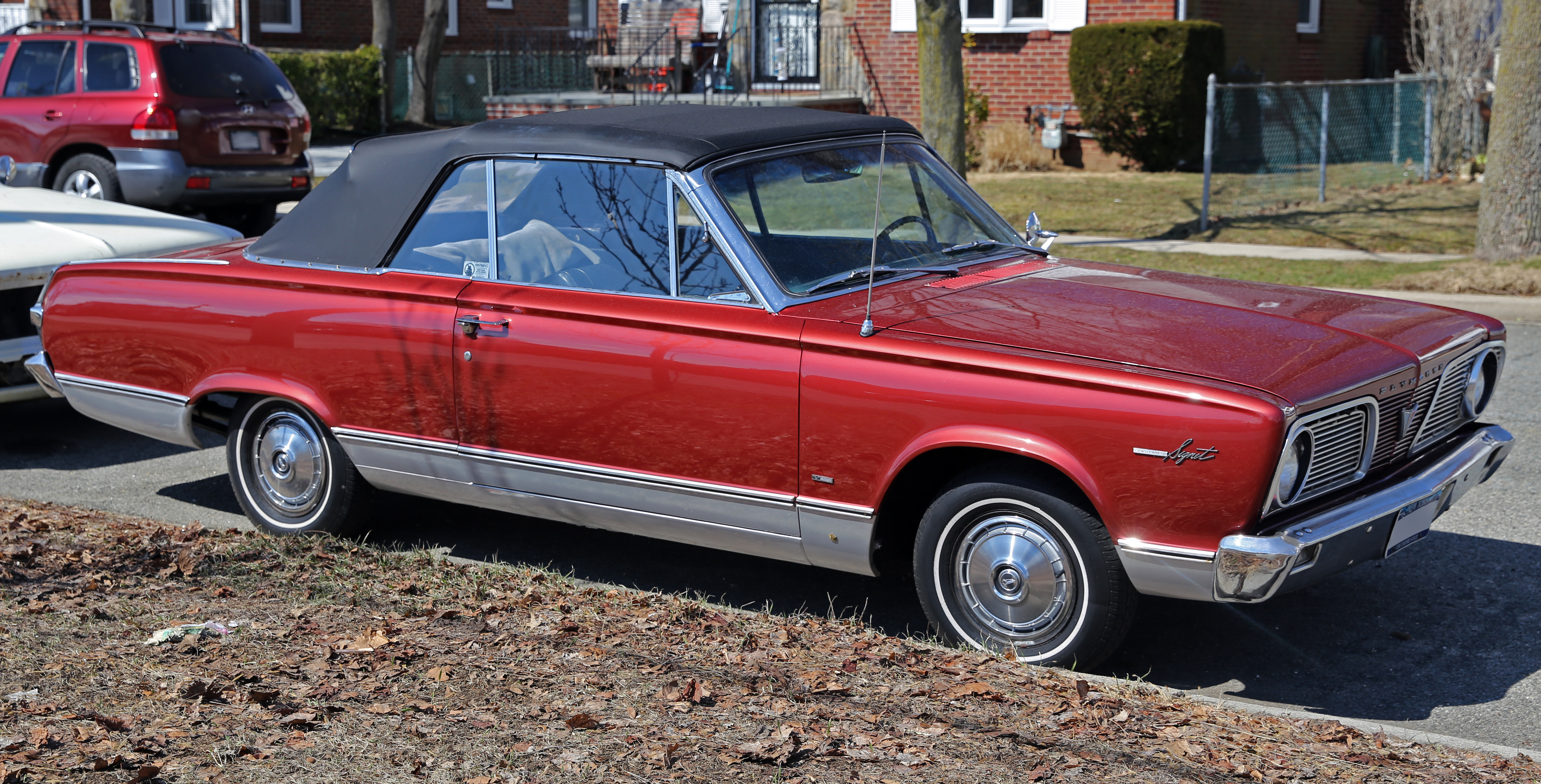 1966 Plymouth Valiant Signet Convertible, built in Hamtramck MI and fitted with the optional 273ci 2-barrel LA-series V8 engine.